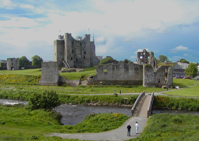 Castle In Trim, County Meath